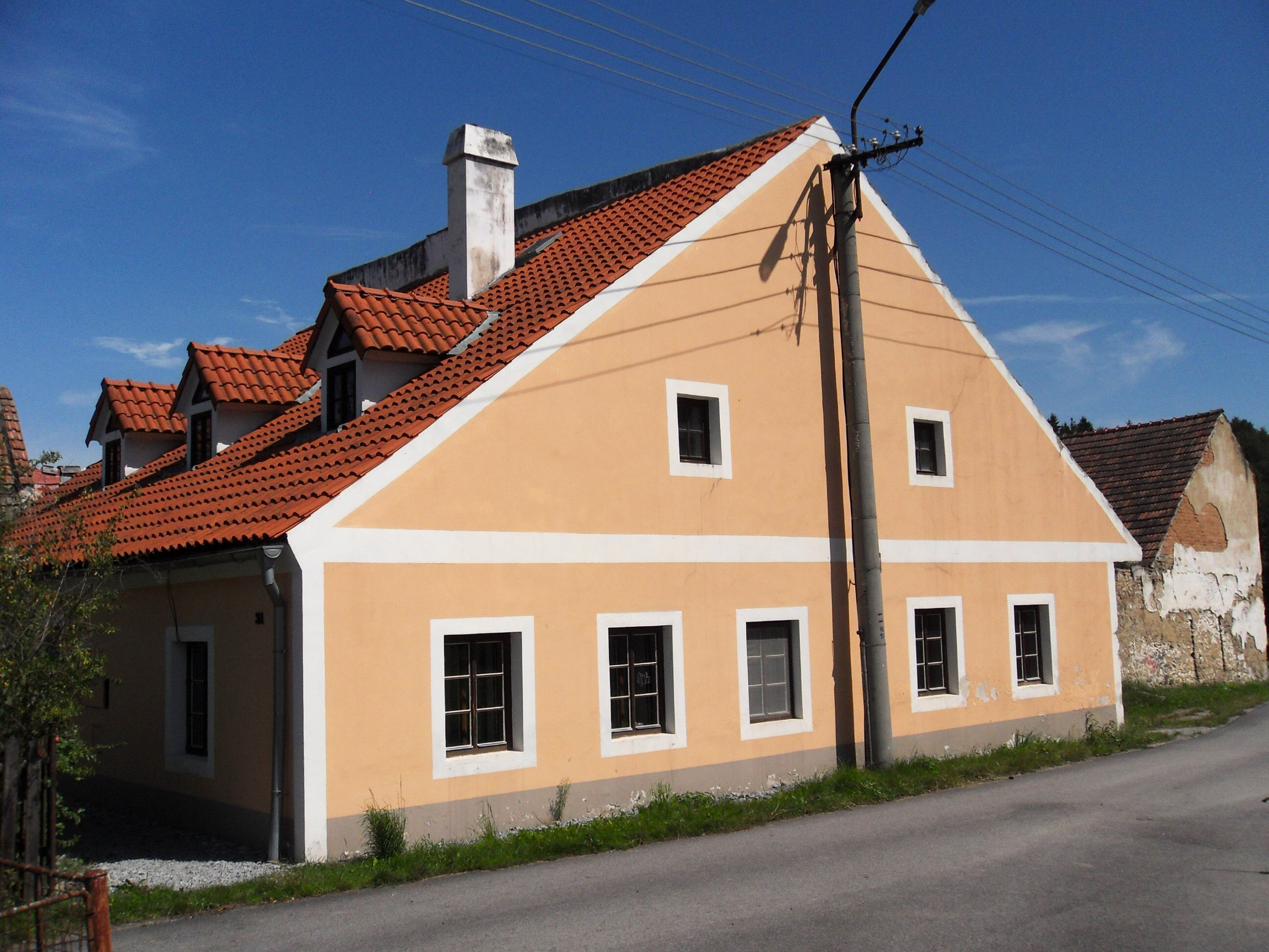 Former Čížkrajice fortress, Čížkrajice, České Budějovice district, Czech Republic